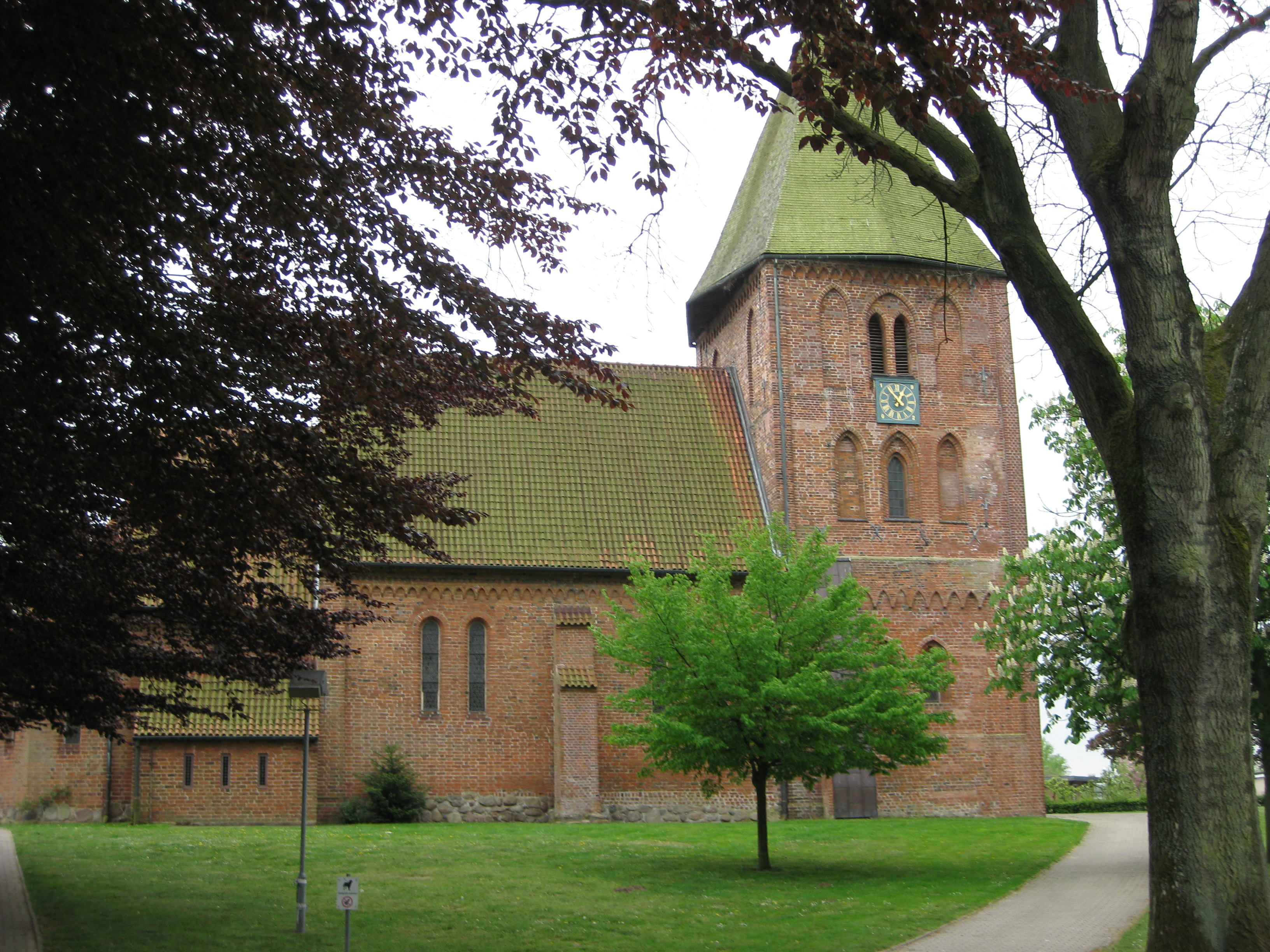 Church in Zarpen.